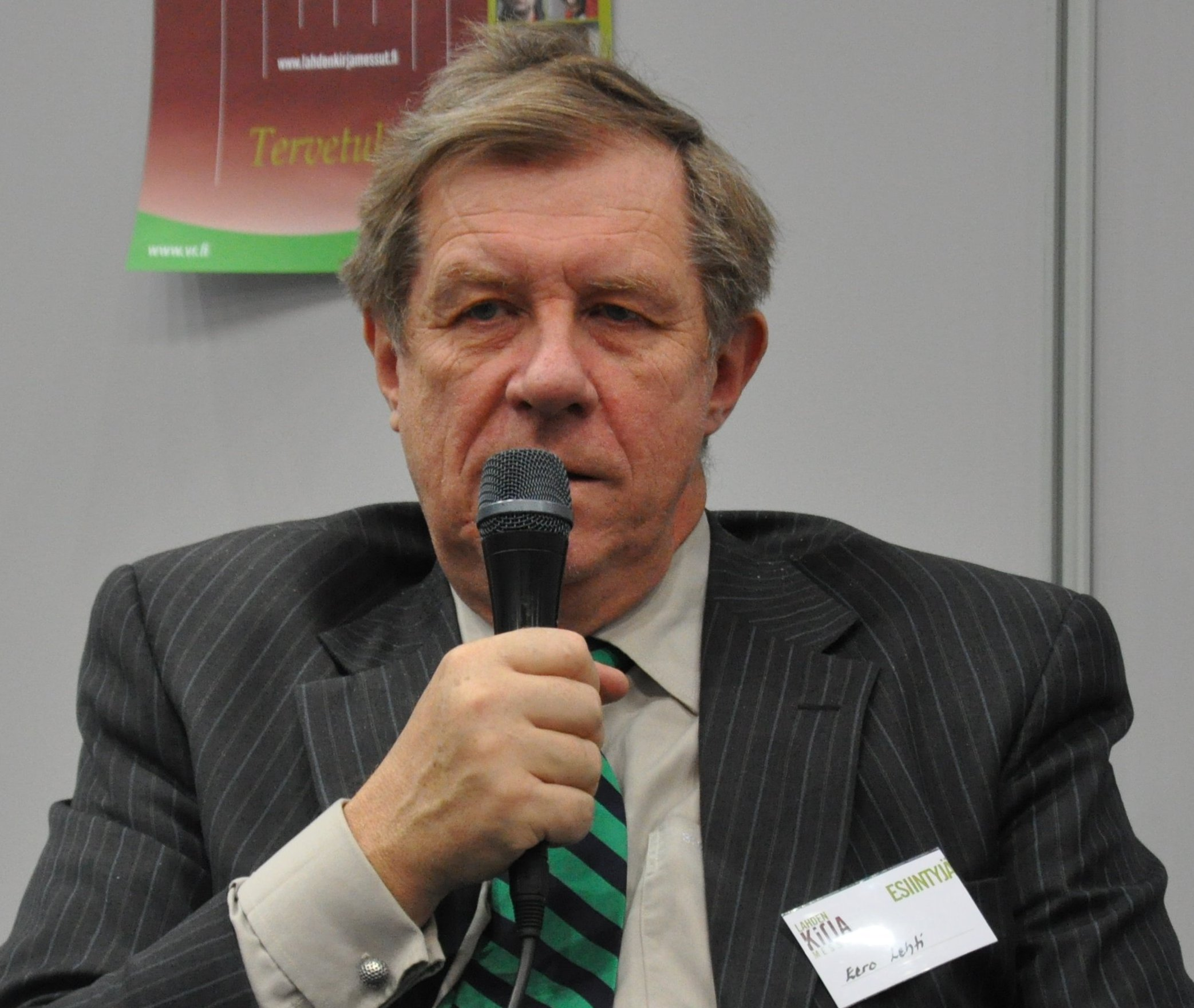 Finnish businessman and Member of Parliament Eero Lehti speaking at the Lahti Book Fair 2009.